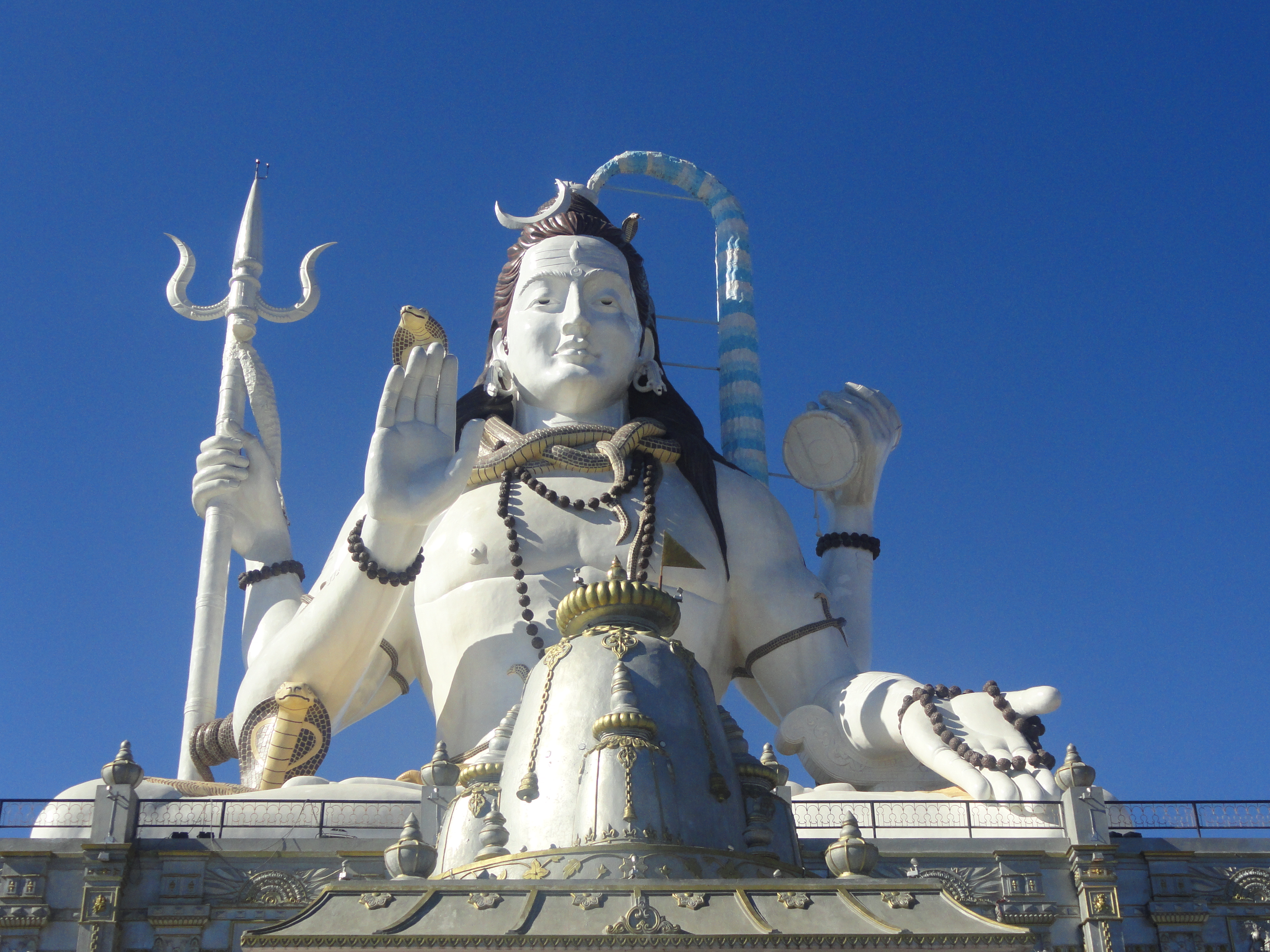 This is the statue of Lord Shiva at Siddhesvara Dhaam in Namchi, Sikkim